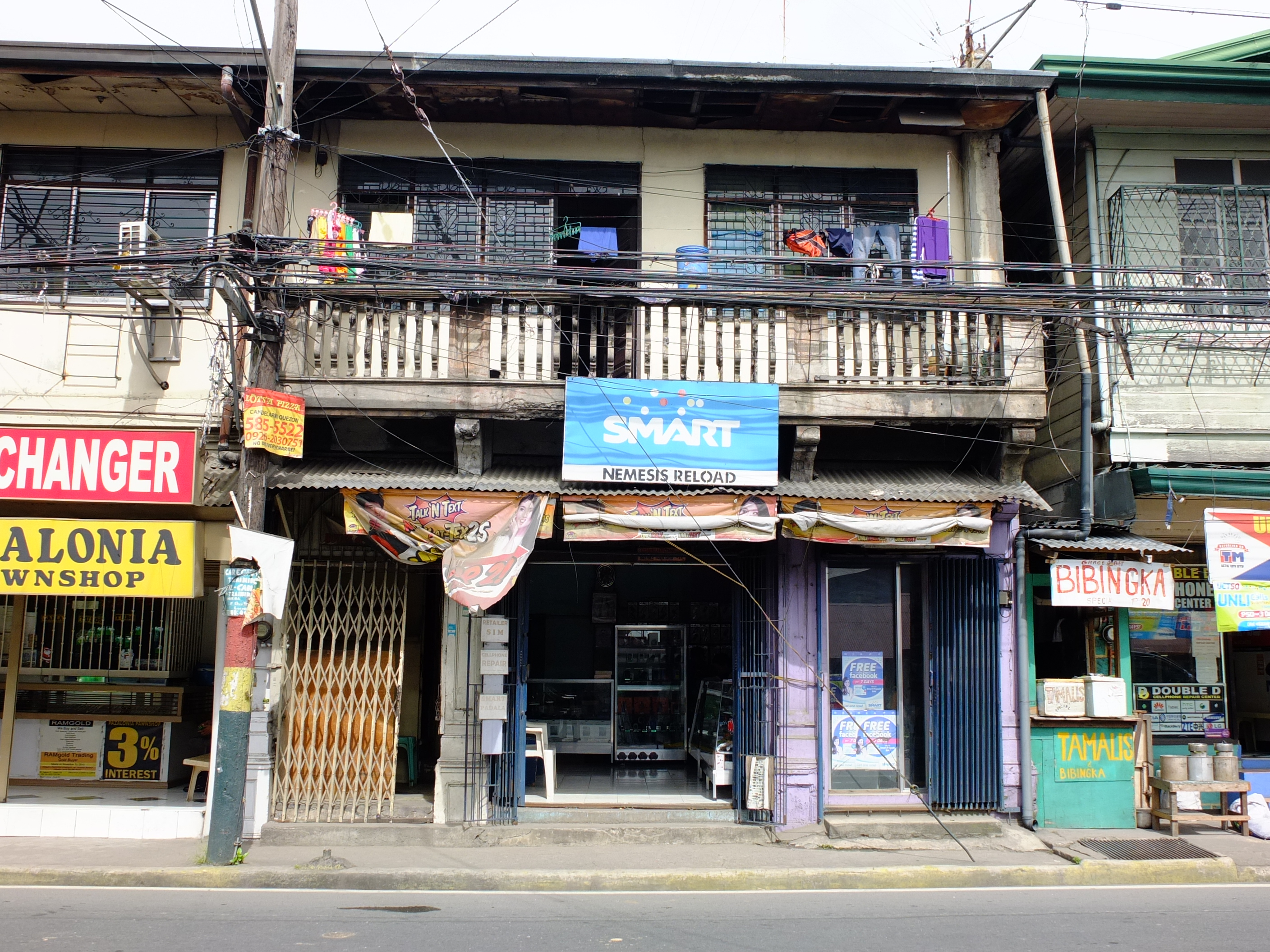 Old House in General Luna Street Sariaya, Quezon